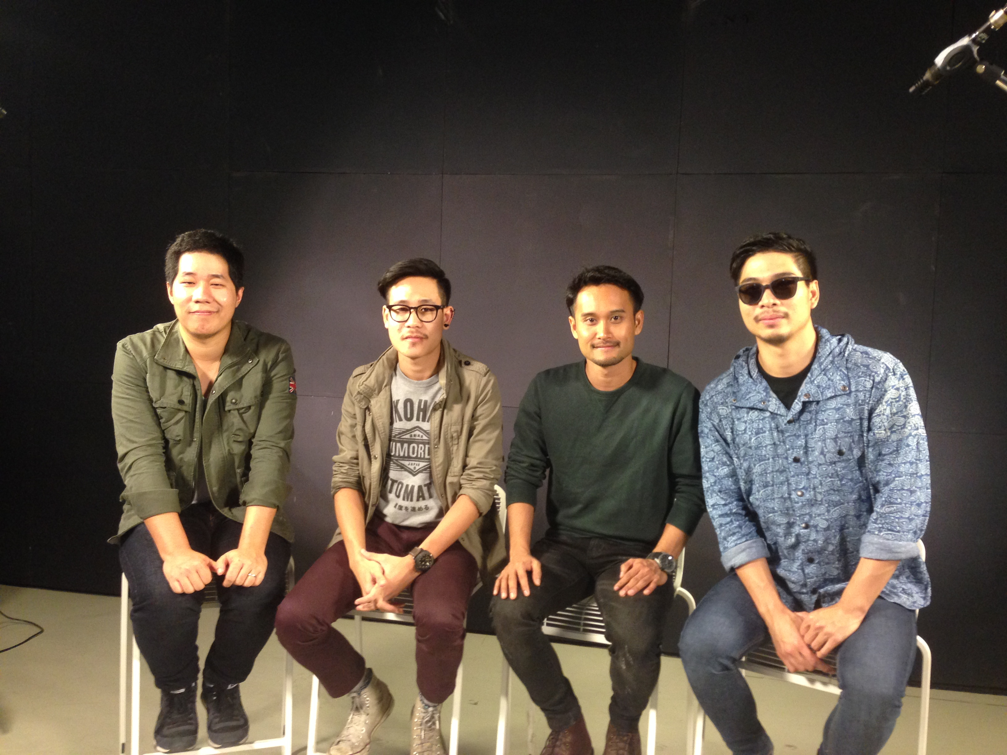 Musketeers at VERY TV.